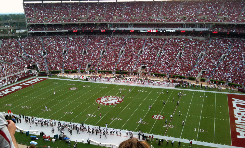 Kickoff from the FIU-Bama game on September 12, 2009